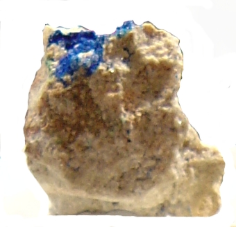 Gilalite I took this photo in october 2005